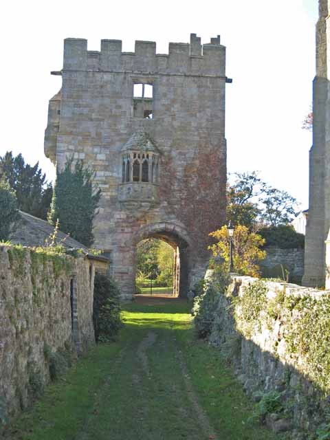 Marmion Tower, West Tanfield A fourteenth century gatehouse, adjacent to the Church.